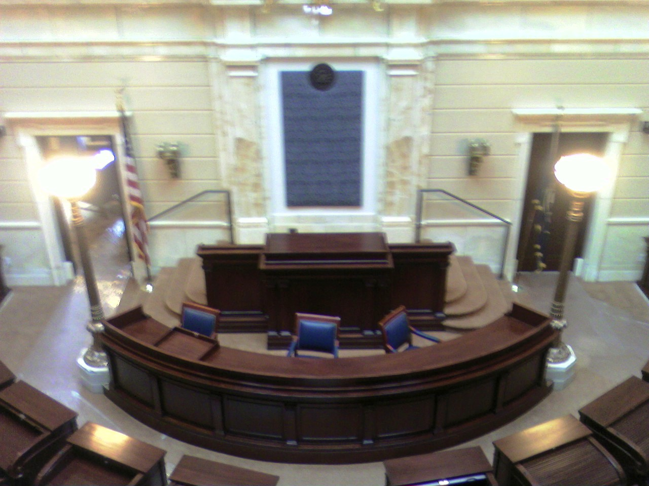 Utah State Senate Chamber.